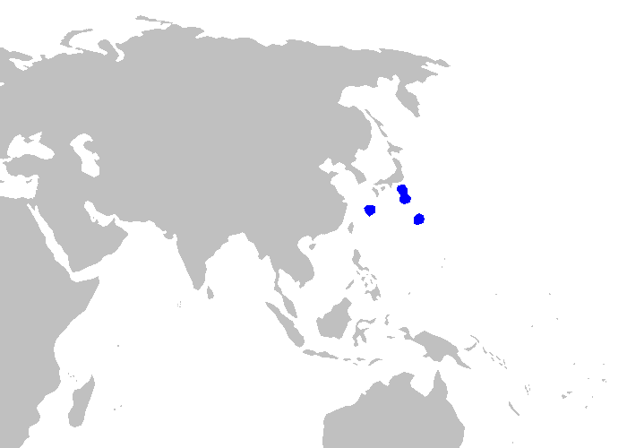 Distribution map for Galeus longirostris